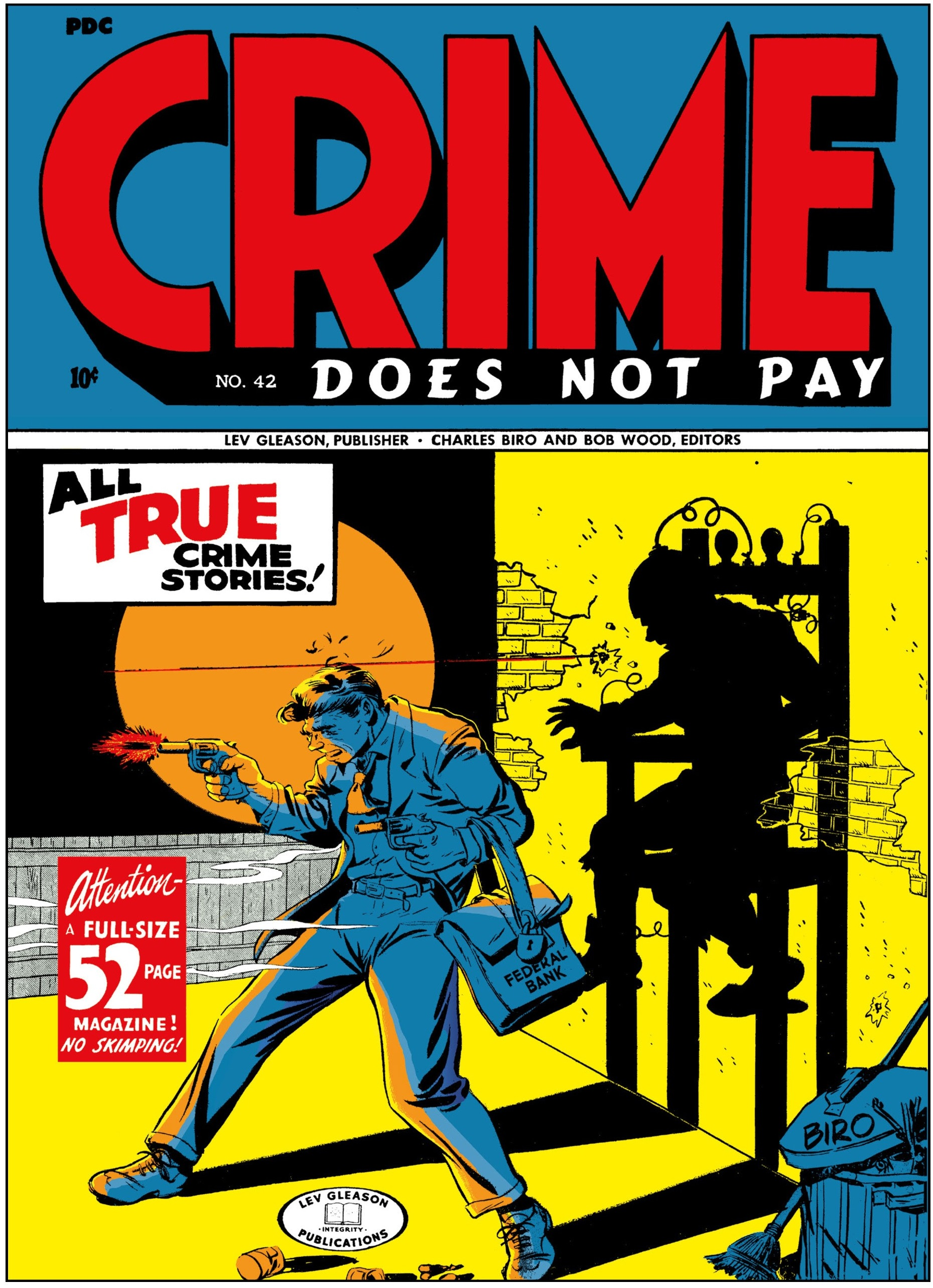 Cover of Crime Does Not Pay #42 (1945) Lev Gleason. Cover art by Charles Biro.